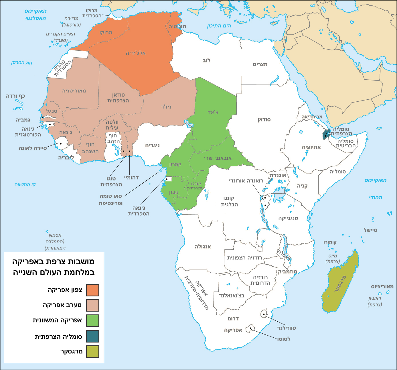 Translation of Image:African continent-fr.svg by User:Sting to Hebrew.